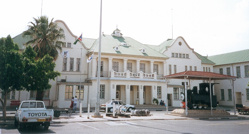 Windoek station, Namibia